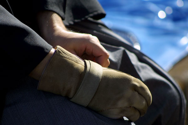 A yotsugake, the four-fingered glove used for Kyudo. Taken at a competition in the Kanto region of Japan.